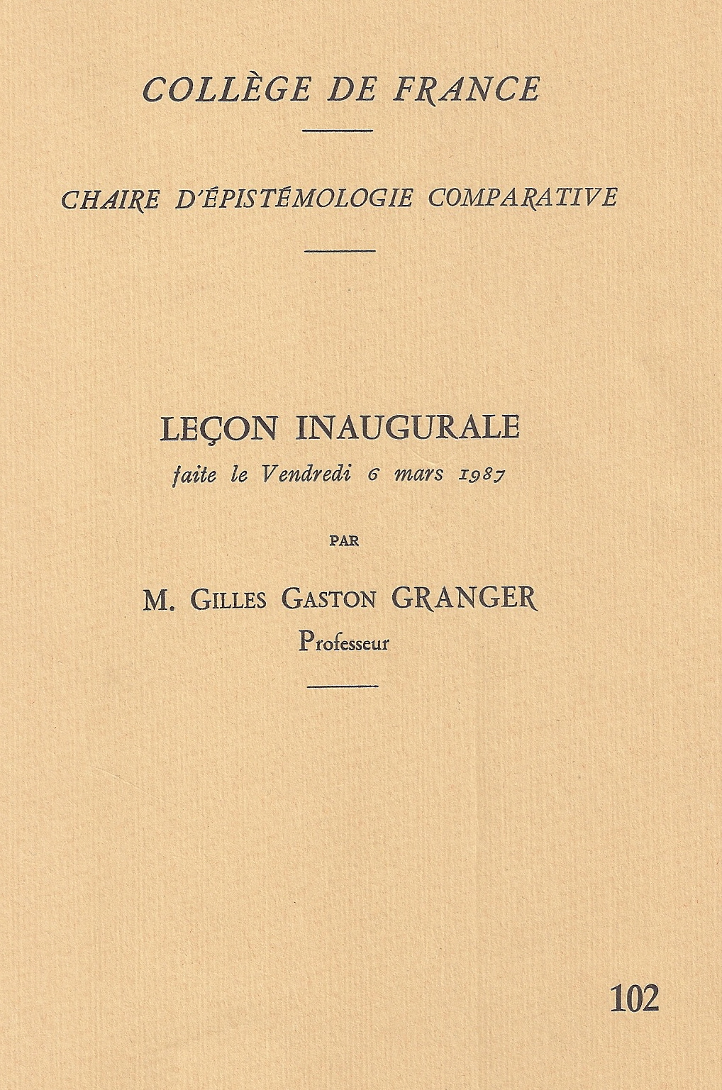 Chaire d'Epistémologie Comparative, Collège de France, 1987.